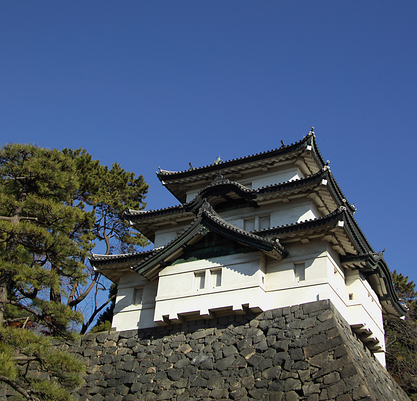 Turret of Edo Castle Kokyo Tokyo Kanto region Honshu Japan I took this photo and contribute my rights in the file to the public domain; individuals and organizations retain rights to images in it.